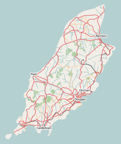 This map may be incomplete, and may contain errors. Don't rely solely on it for navigation.